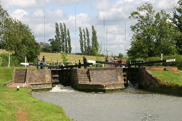 Hillmorton Top Lock.